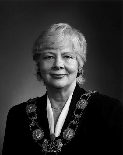 circa 1991 date QS:P,+1991-00-00T00:00:00Z/9,P1480,Q5727902 portrait photograph of June Rowlands, mayor of Toronto (1991–94)